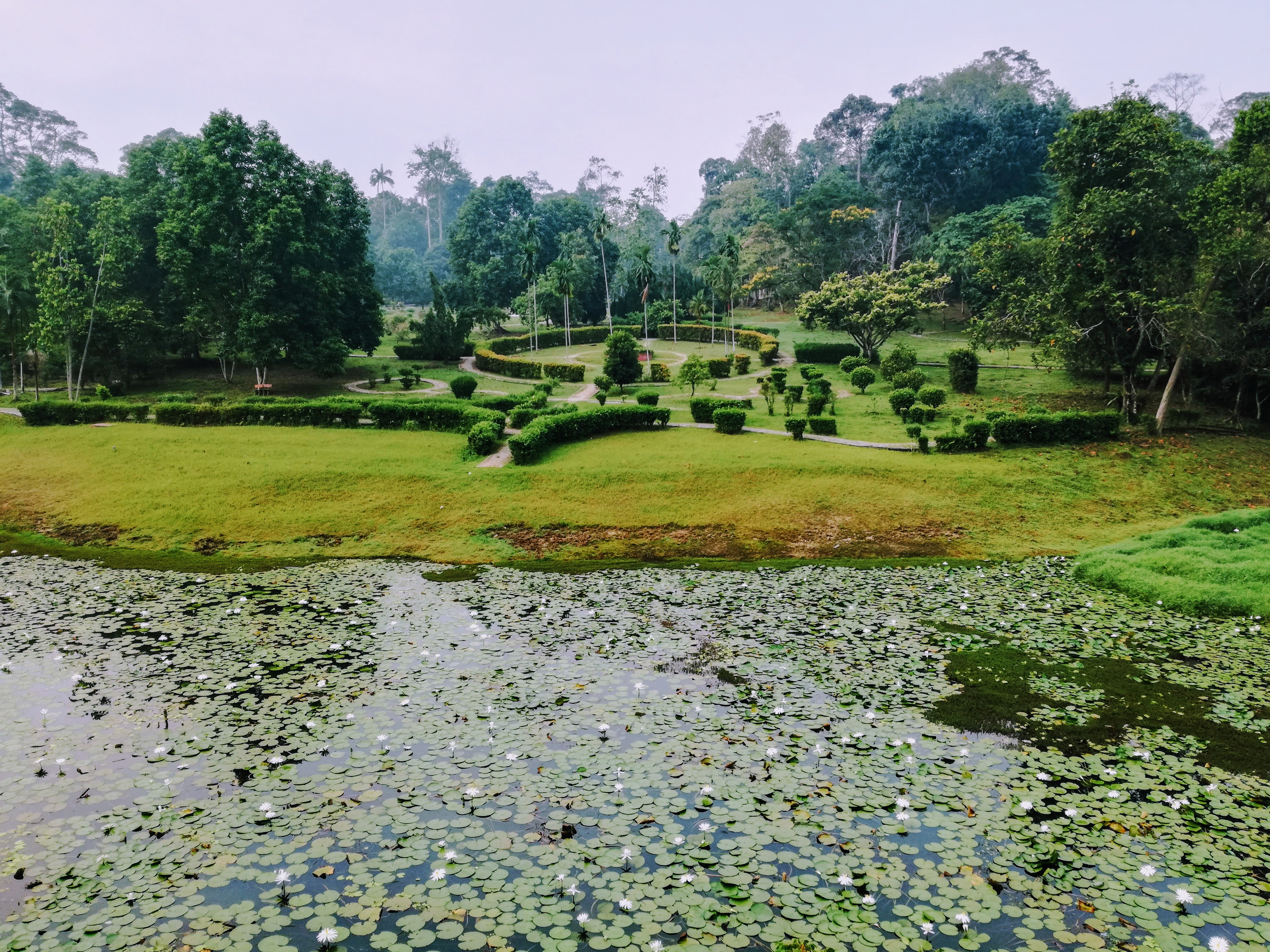 This is the view from viewing tower to the Ornamental Garden. The garden is decorated with shrubs and trees, which are arranged into a beautiful landscape.